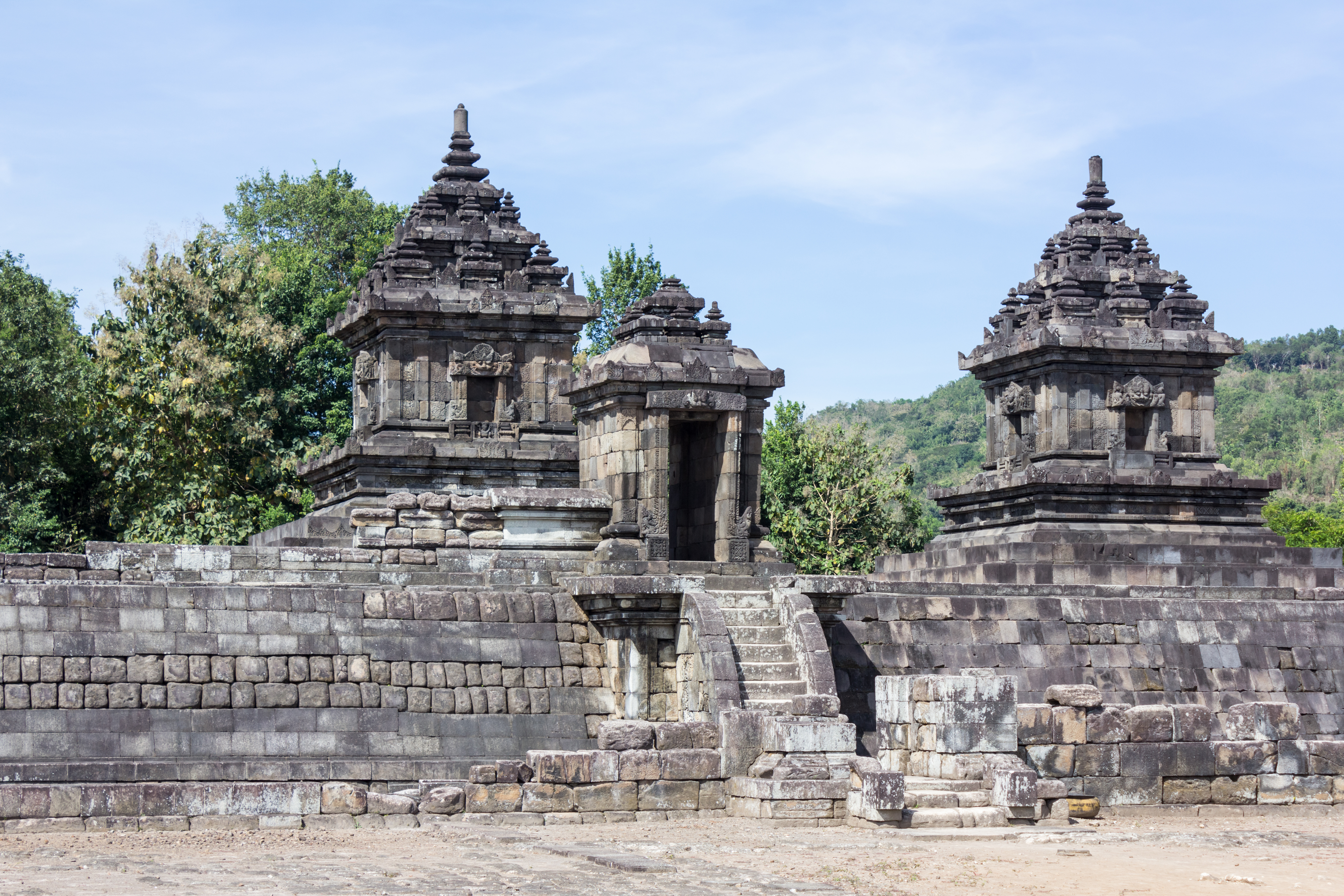 Barong Temple (gate and two buildings) 2014-05-31